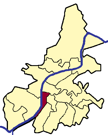 Trier suburbs